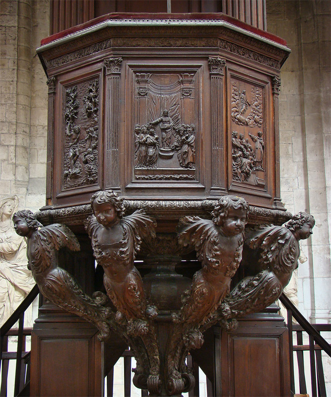 Évreux Cathedral, Eure, Normandie, France. The pulpit, sculpted by the monk Guillaume de la Tremblaye in 1675.